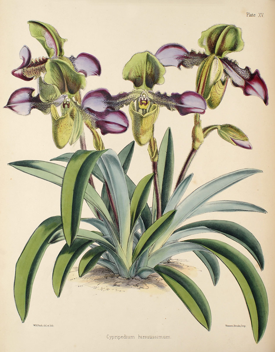 Illustration of Paphiopedilum hirsutissimum (as syn. Cypripedium hirsutissimum)